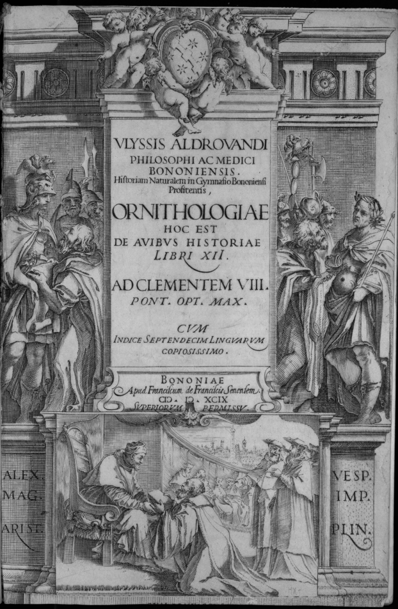 Ulysse Aldrovandi's cover page of Ornithologiae